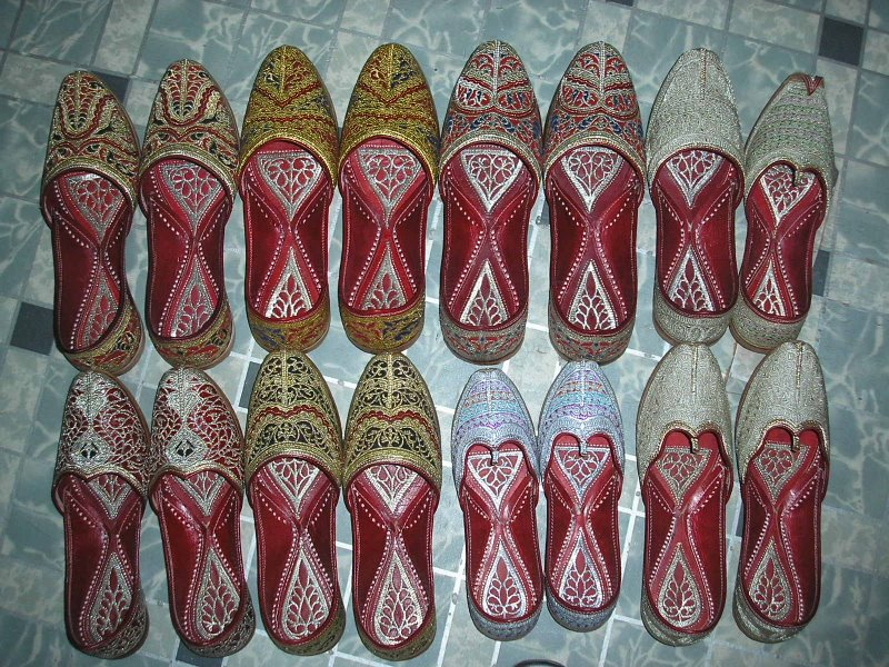 Fazilka jutti